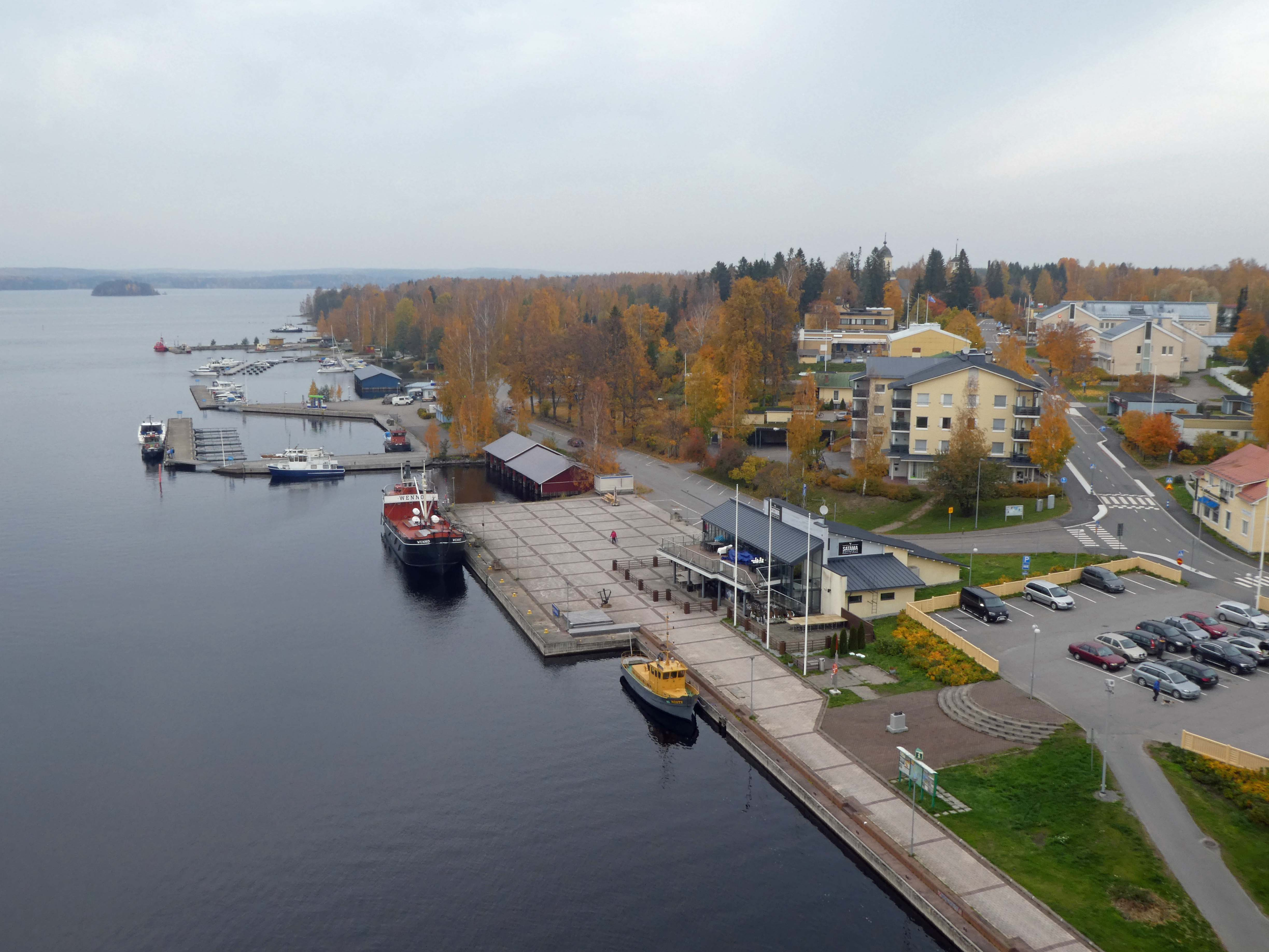 Puumala Harbor and part of the village in 2018. Finland.